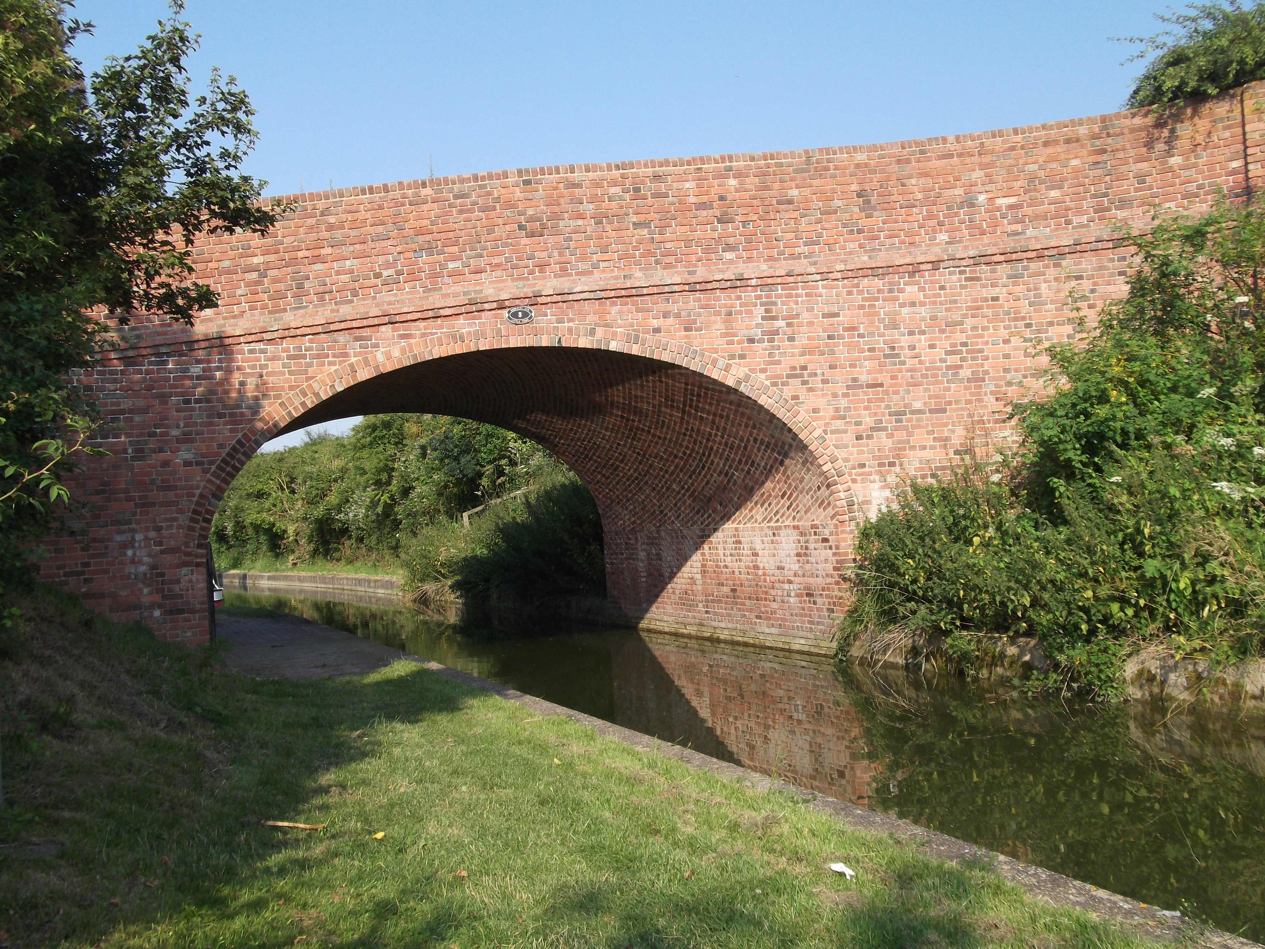 Bridge no. 3 over the Wendover Arm Canal, carrying Little Tring Road. The bridge was built in 2001 replacing an embankment, as part of the restoration of the canal. It is made of concrete, faced with bricks to give it a traditional appearance. Wendover Arm Trust: Bridge reconstruction